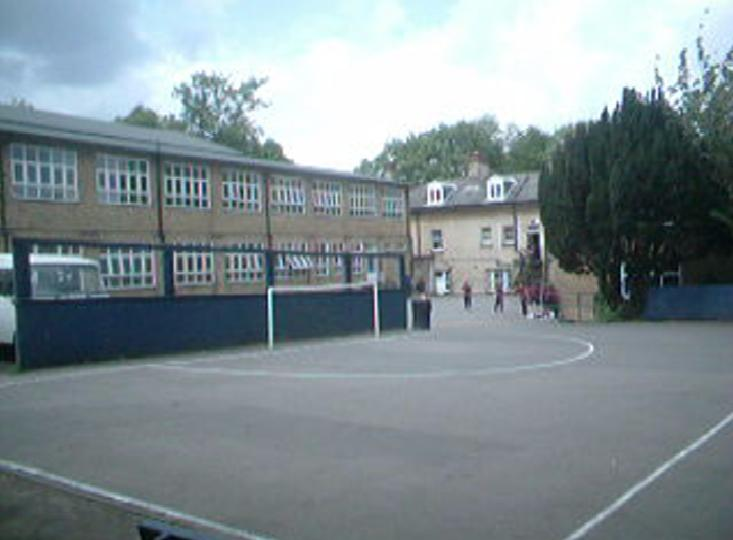 Photo of Challoner playground